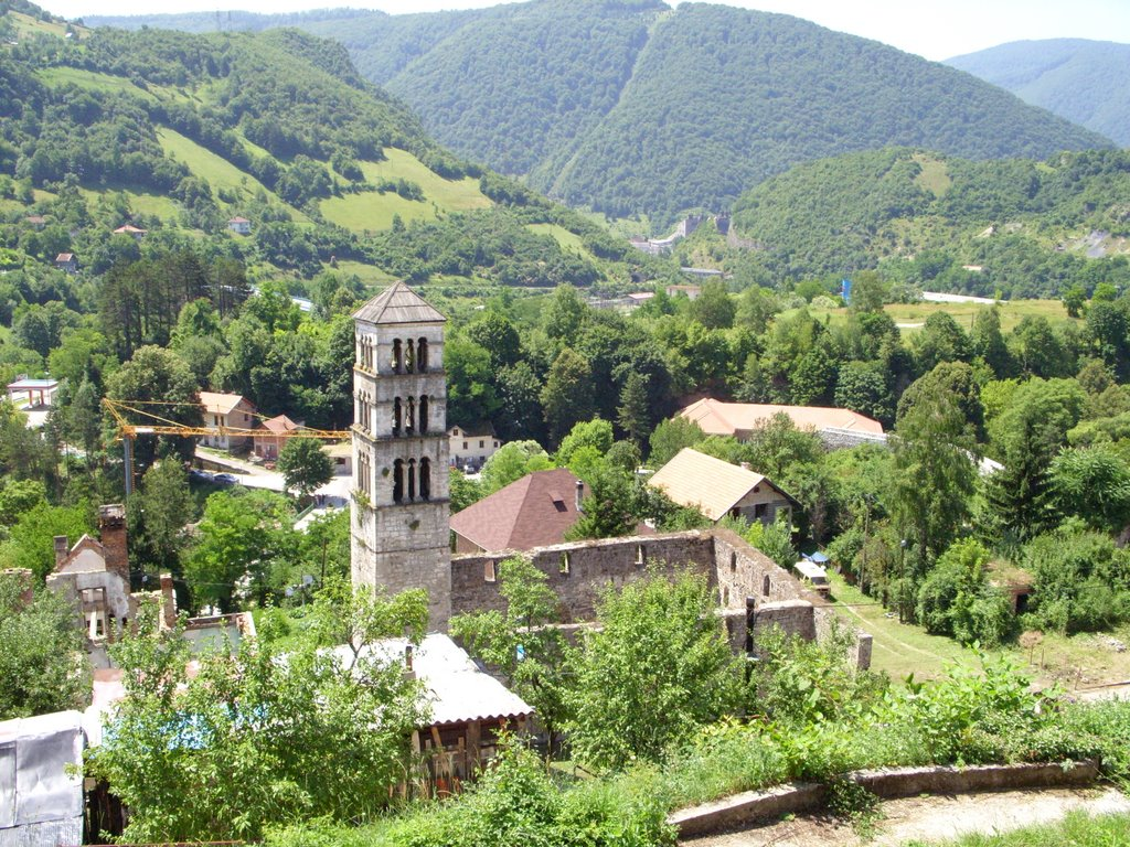 St. Luke church, Jajce